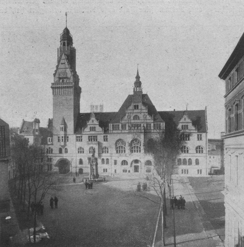 The town hall of Duisburg, build by Friedrich Ratzel (1869-1907), in 1902.